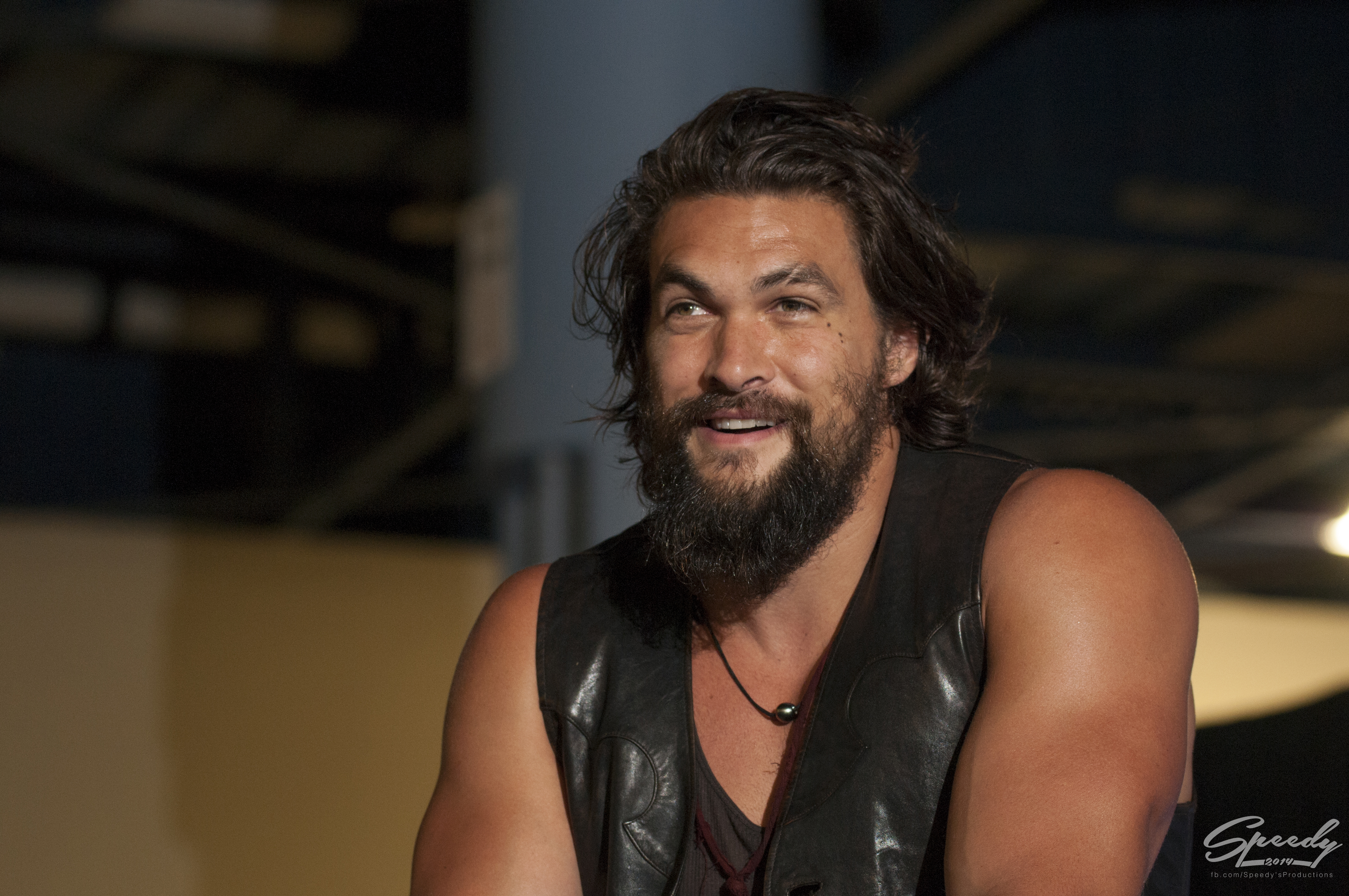 Photo Credit to Sadiel "Speedy" Ruiz